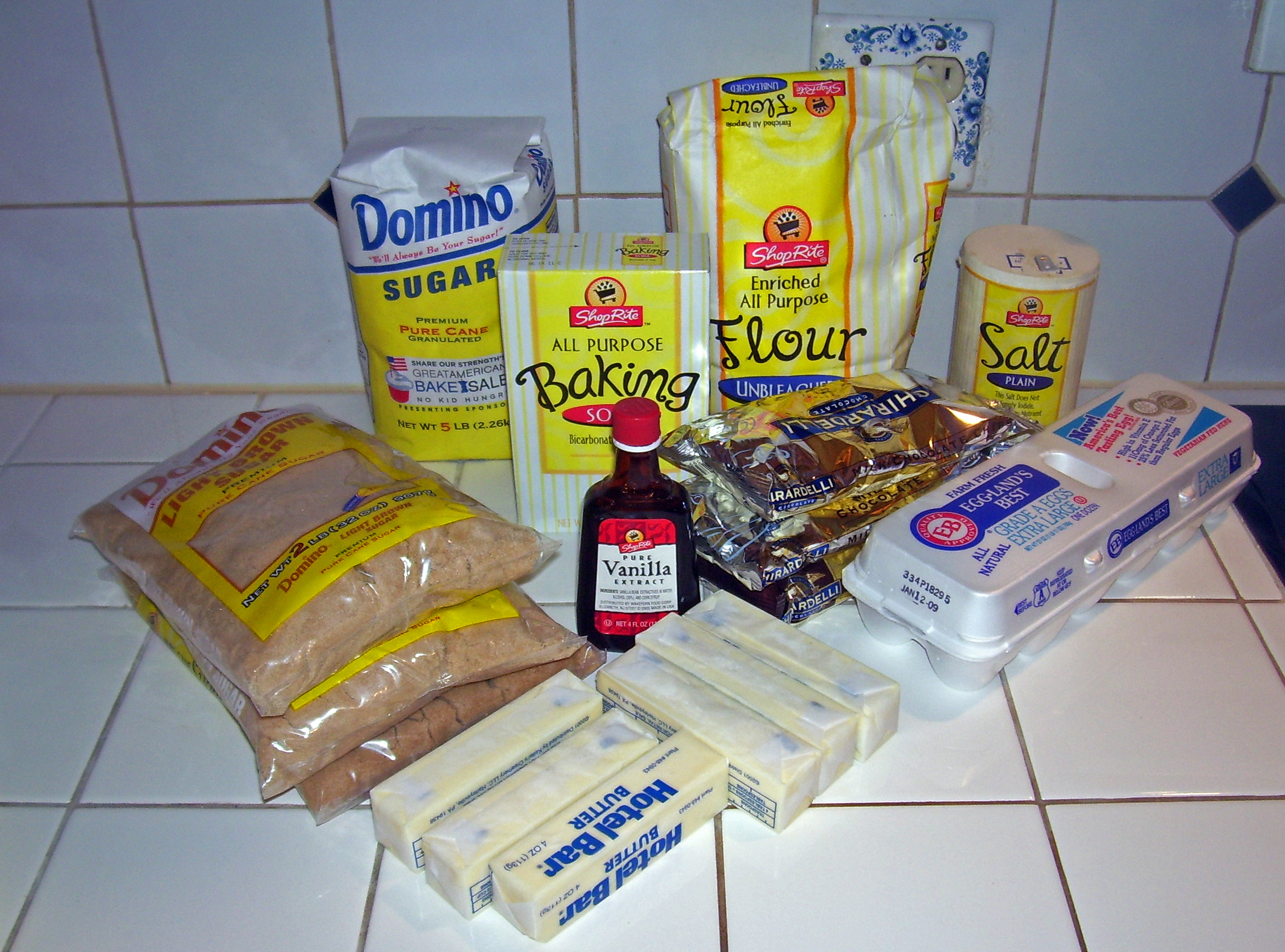 Standard ingredients of chocolate-chip cookies, prior to preparation, mixing and baking